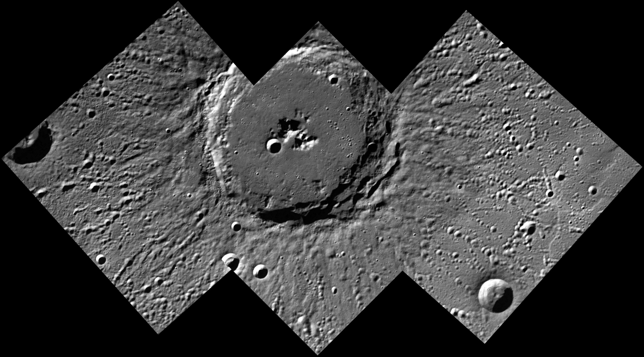 Mosaic showing Stieglitz crater on Mercury. Three MESSENGER Wide Angle Camera images (EW0219564014G, EW0219648980G, EW0219733948G). North is up. The small crater in lower right is Strauss. Emission Angle: 0.25 Incidence Angle: 76.5 Latitude: 71.9 Longitude: 68.3 Phase Angle: 76.6